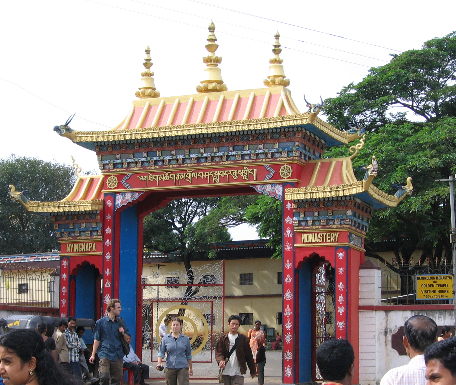 Namrodoling Monastery Bylakuppe - Golden Temple at the Tibetan Settlement near Kushalnagar, Karanataka